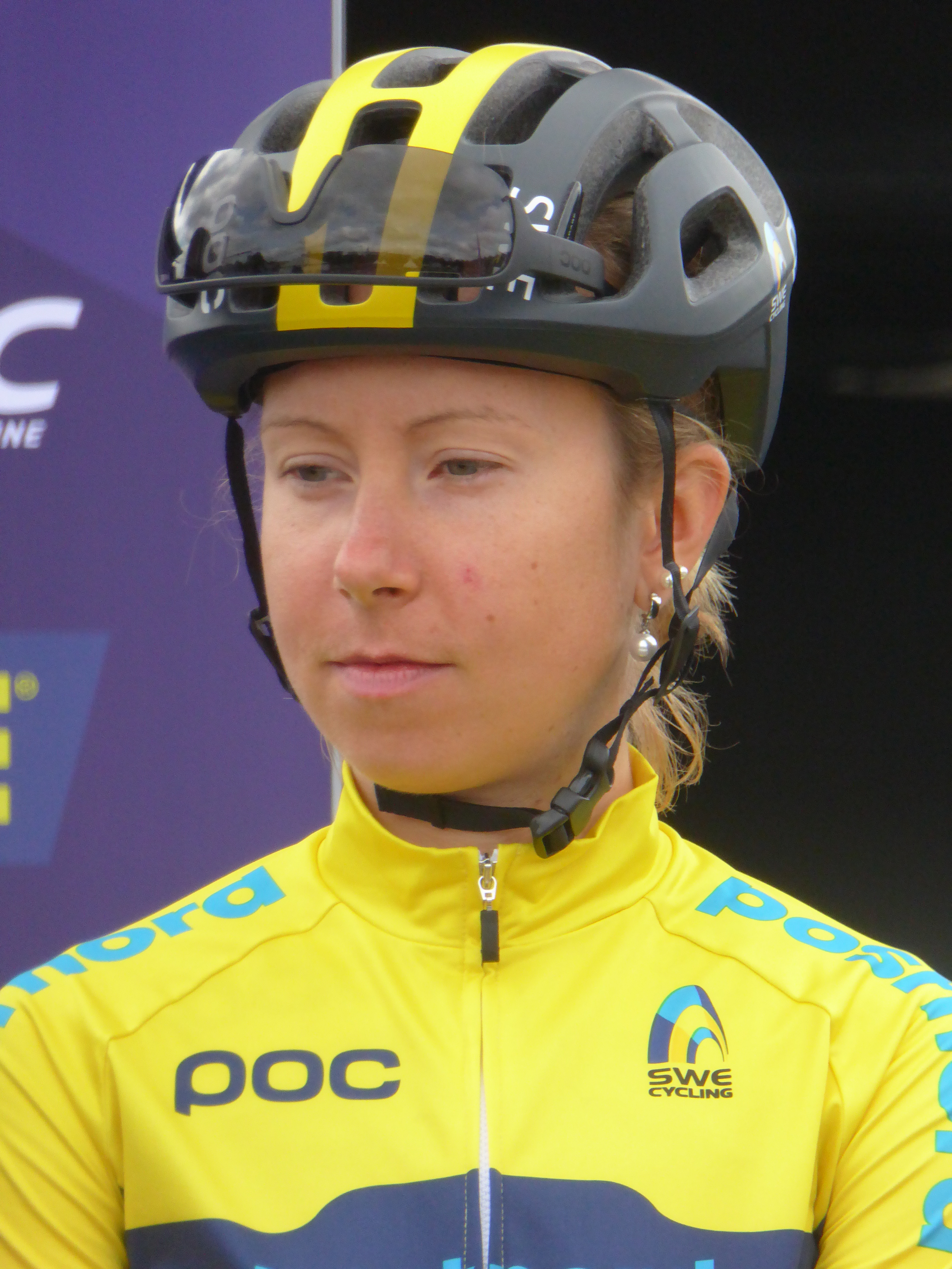 Hanna Nilsson (Sweden), prior to the women's road race at the 2018 UEC European Road Cycling Championships in Glasgow.